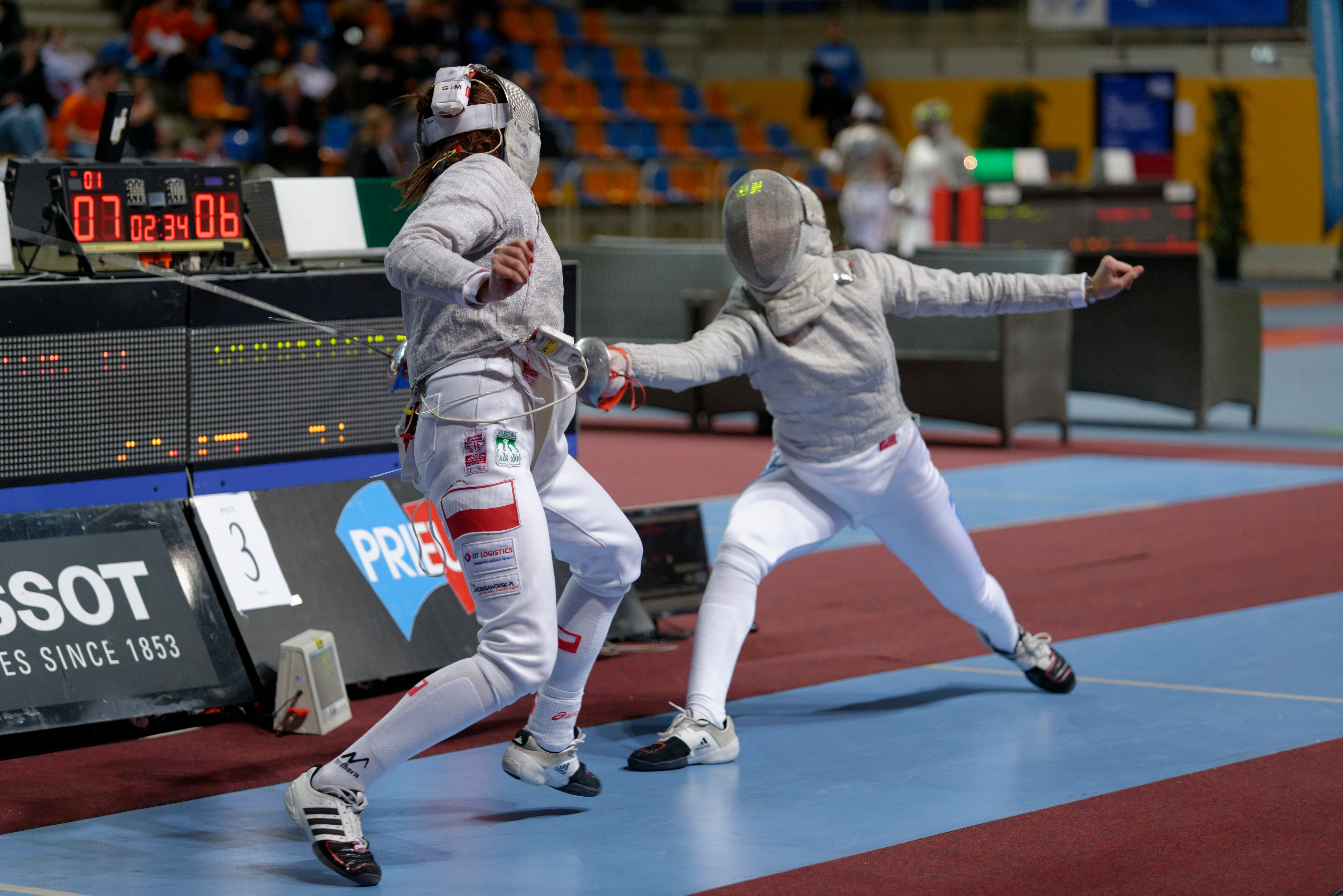 Poland's Małgorzata Kozaczuk (left) fences against Vassiliki Vougiouka of Greece (right) in the table of 16 at the Trophée BNP Paribas-Grand Prix FIE, first stage of the women's sabre World Cup, in Orléans.